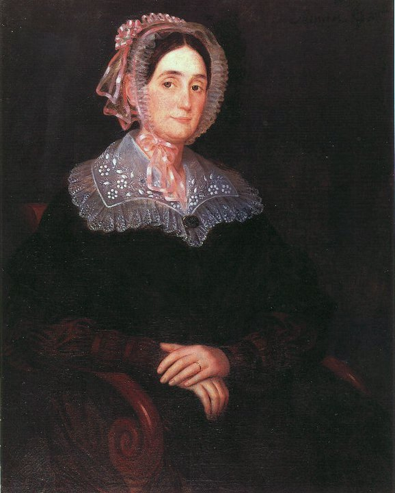 Portrait of Josephine Roman (1797–1856), wife of Valcour Aimé, an affluent gentleman planter of Louisiana.